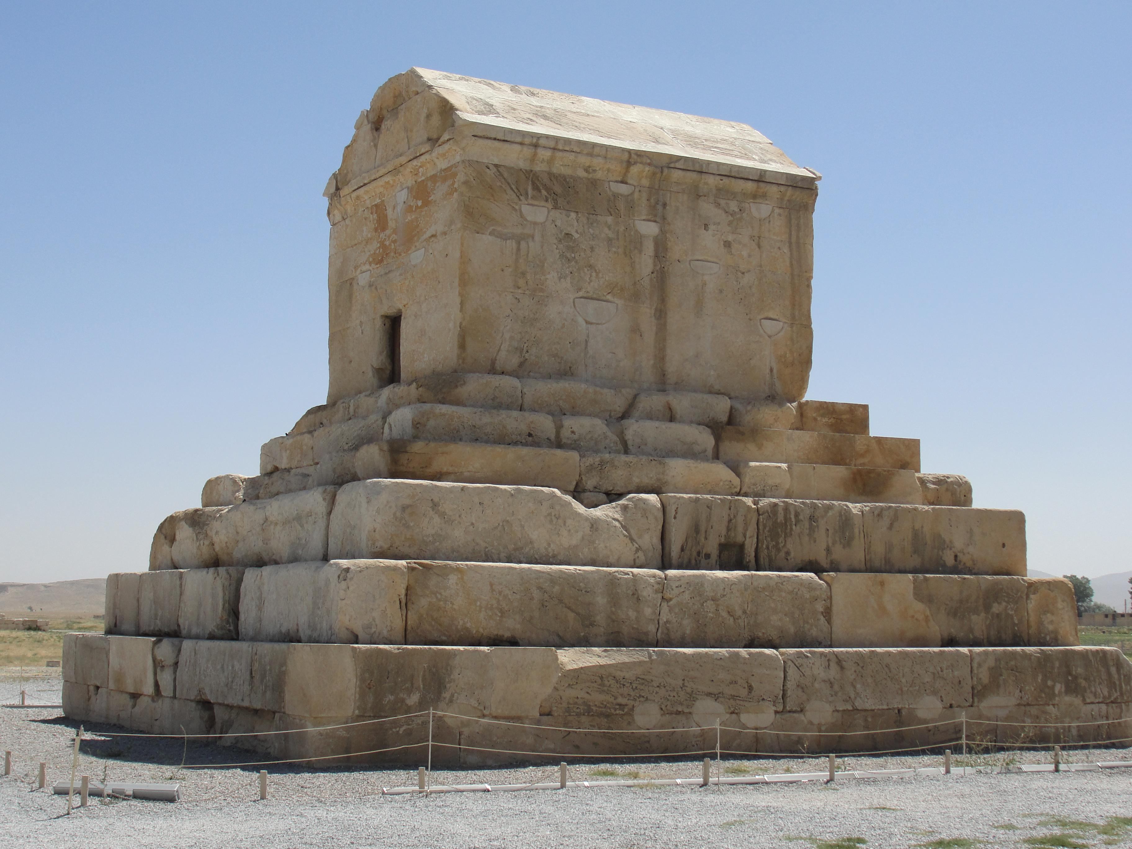 The tomb of Cyrus the Great